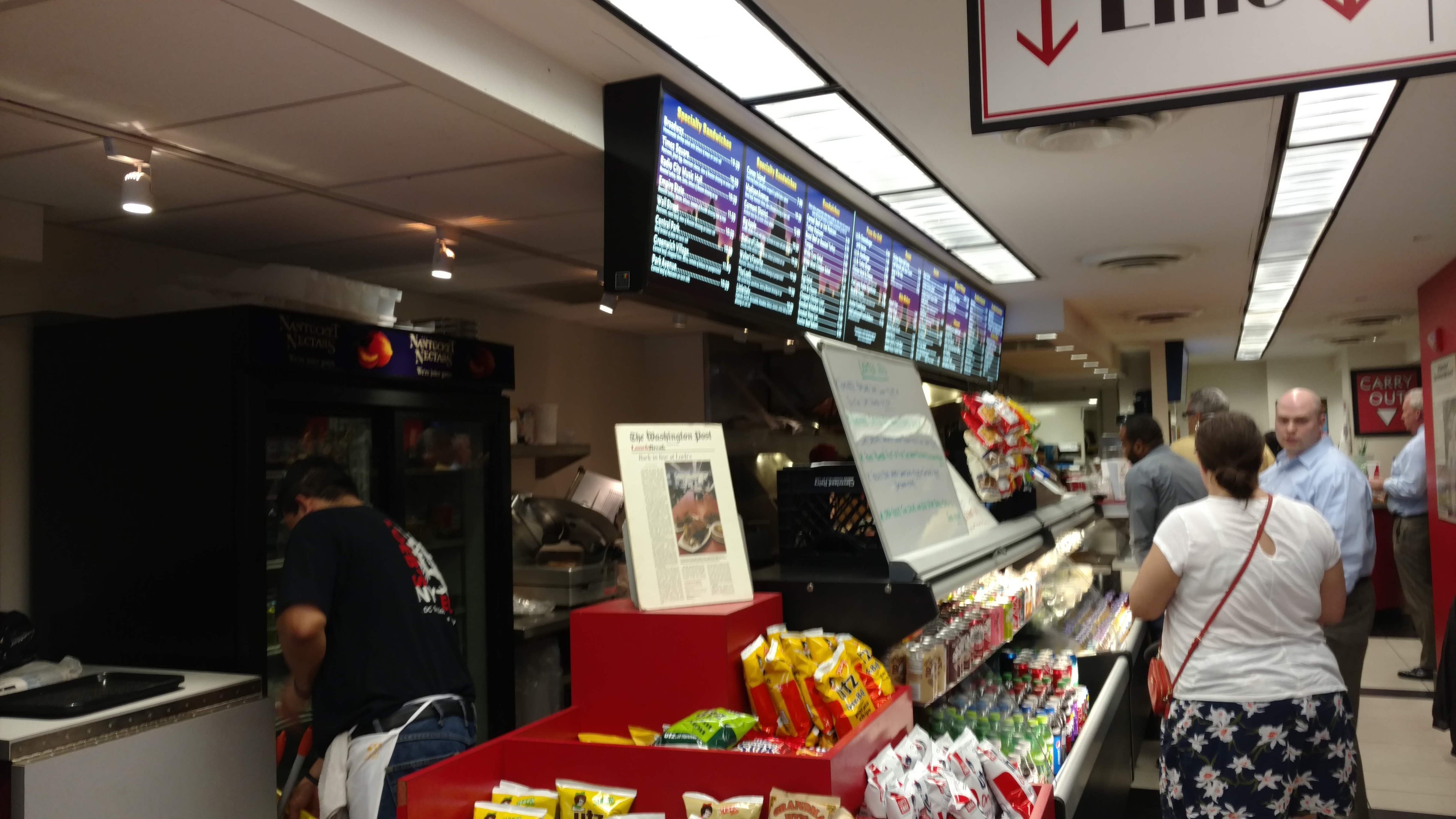 the sandwich counter at Loeb's NY Deli, Washington DC